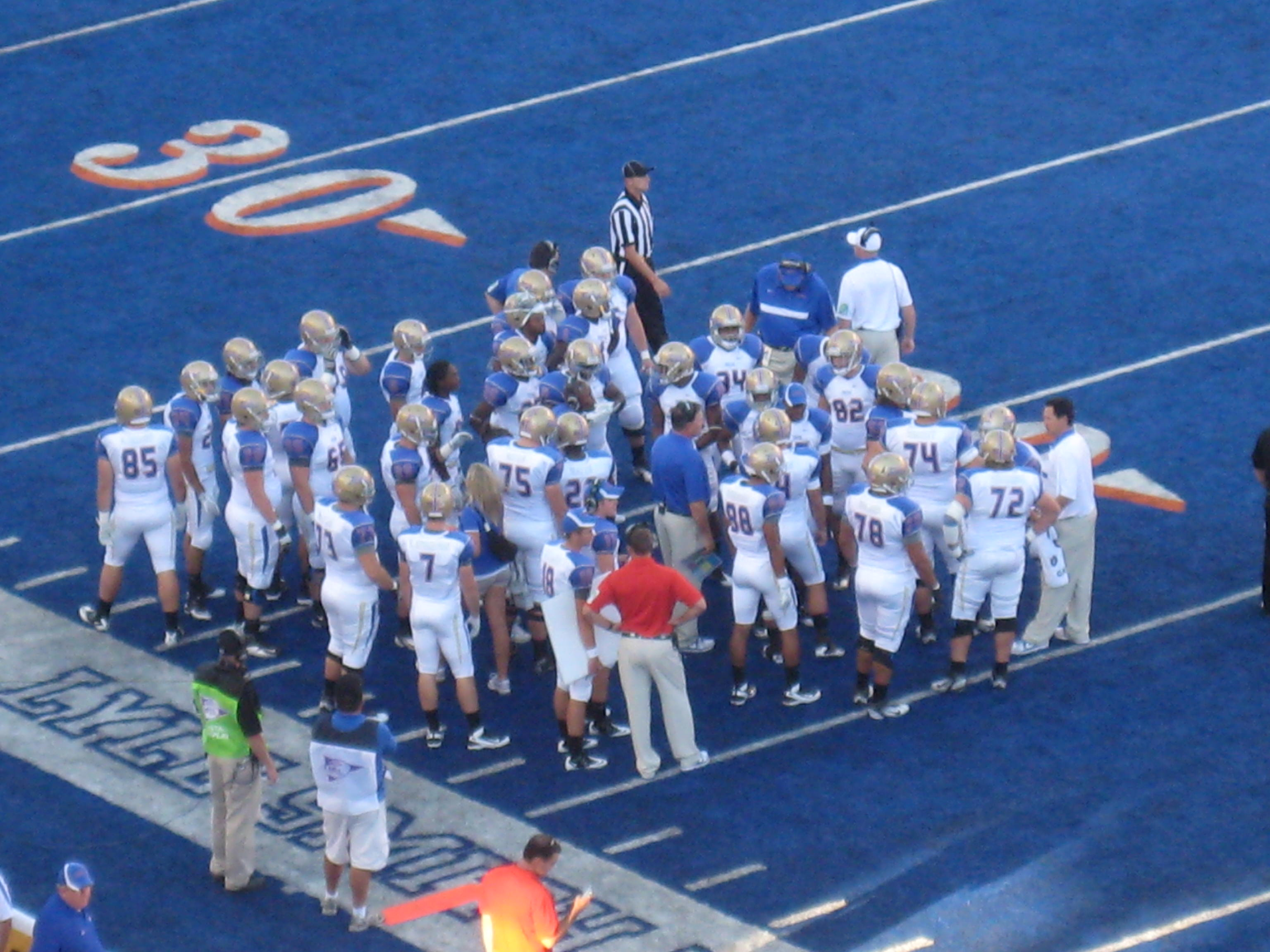 The Tulsa Golden Hurricane on the blue turf of Bronco Stadium during their game vs Boise State in Boise, Idaho on September 24, 2011.